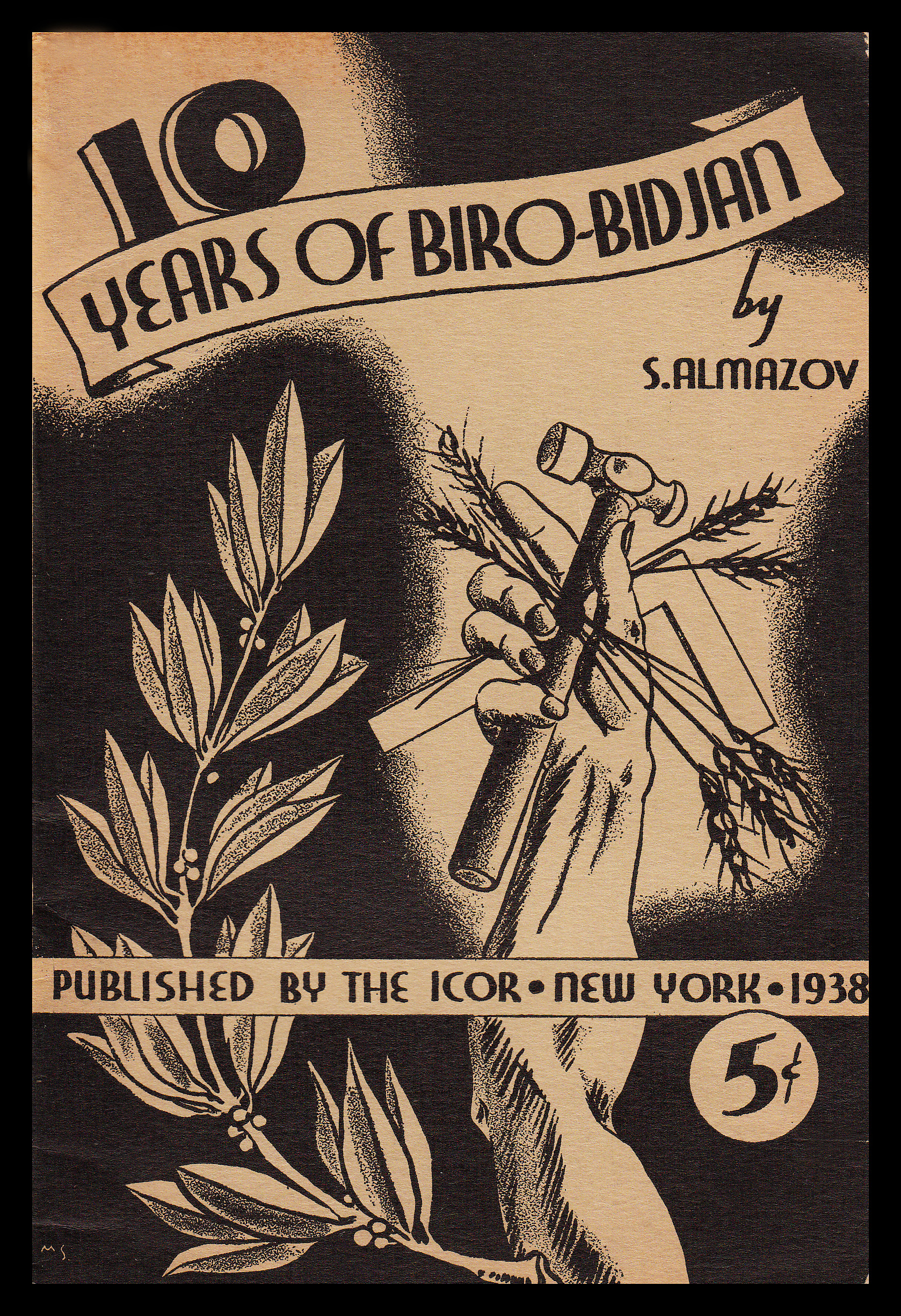 Cover of the pamphlet 10 Years of Biro-Bidjan, by S. Almazov. Published in New York by ICOR, May 1938, edition of 5,000 copies. Artist unknown (initials M.S.) Published in USA between 1923 and 1978 with no notice of copyright in first publication, public domain. Digitally edited for Wikipedia by Tim Davenport ("Carrite") from a specimen in his collection, no copyright claimed for the work, file released to the public domain without restriction.